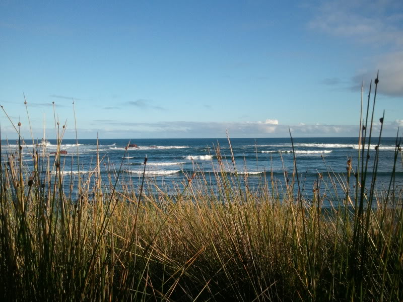 The coast of Philip Island